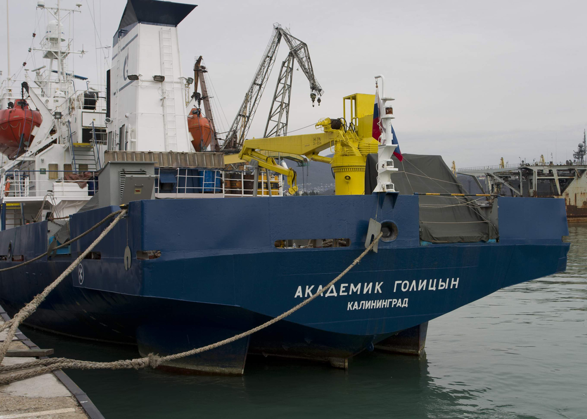 Ship "Akademik Golitsyn"